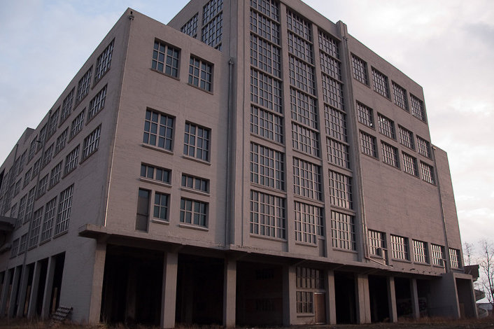 Triage-Lavoir de Péronnes on it's half renovated state in 20th of March, 2010